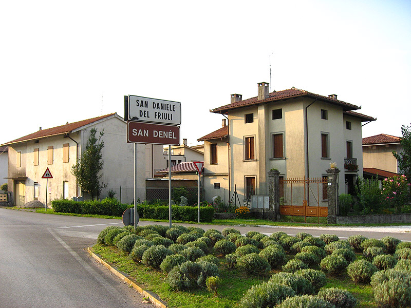 Bilingual roadsign of San Daniele del Friuli/San Denêl (sometimes also written Sant Denêl) in Italian and Furlan, the friulian language Furlan: Segnaletiche stradâl bilengâl in comun di San Denêl Boarisch: S'zwoaschbråchige Oatsschüdl fu da Oatschåft San Daniele del Friuli/San Denêl im Friaul. Om schdeds auf Italienisch unt af Furlan. Fria håd ma auf Daidsch a Sãnkt Daniel im Friaul dazua gsågt